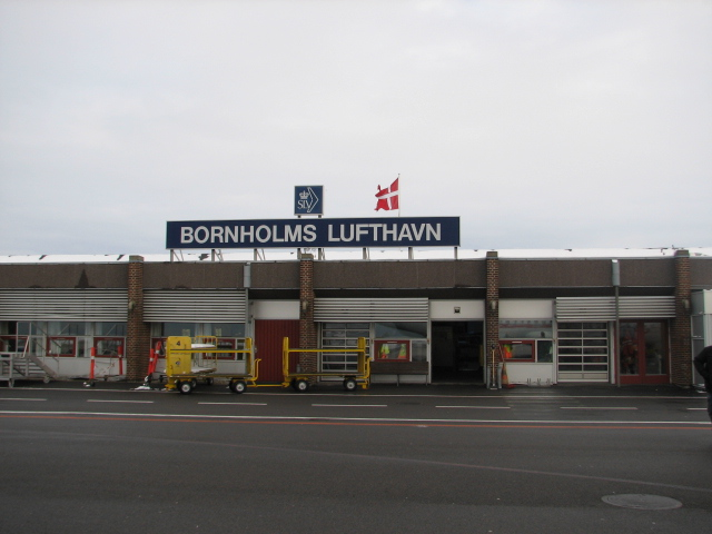 Bornholms Airport